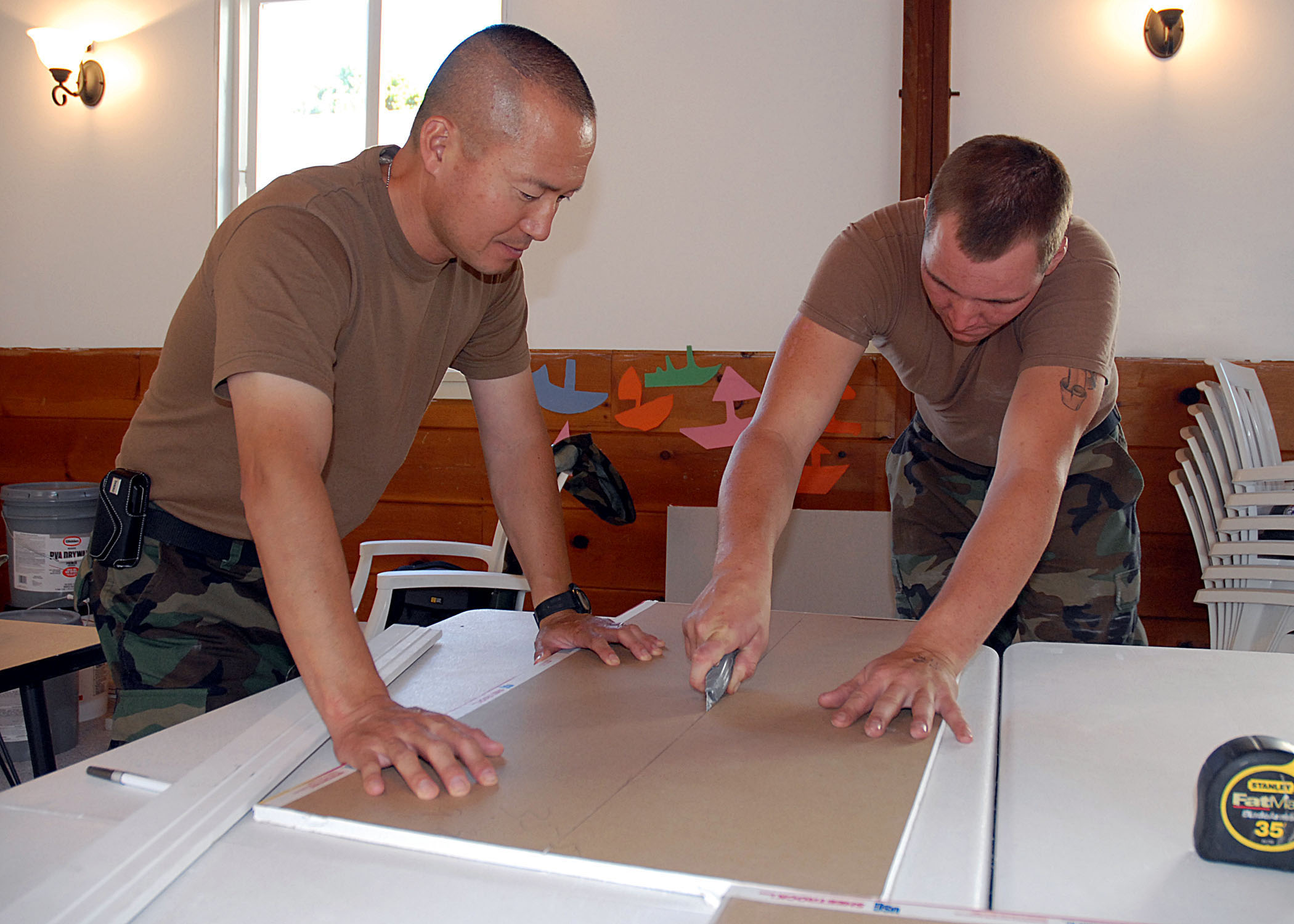 CAMARILLO, Calif. (Sept. 11, 2007) - Lt. Song Hwang, chaplain of Naval Mobile Construction Battalion (NMCB) 5, left, and Builder Constructionman Robert L. Dynda, of the battalion’s air detachment, cut sheetrock during a construction project that they and other Seabees volunteered to carry out at a local church. U.S. Navy photo by Mass Communication Specialist 3rd Class Patrick W. Mullen III (RELEASED)